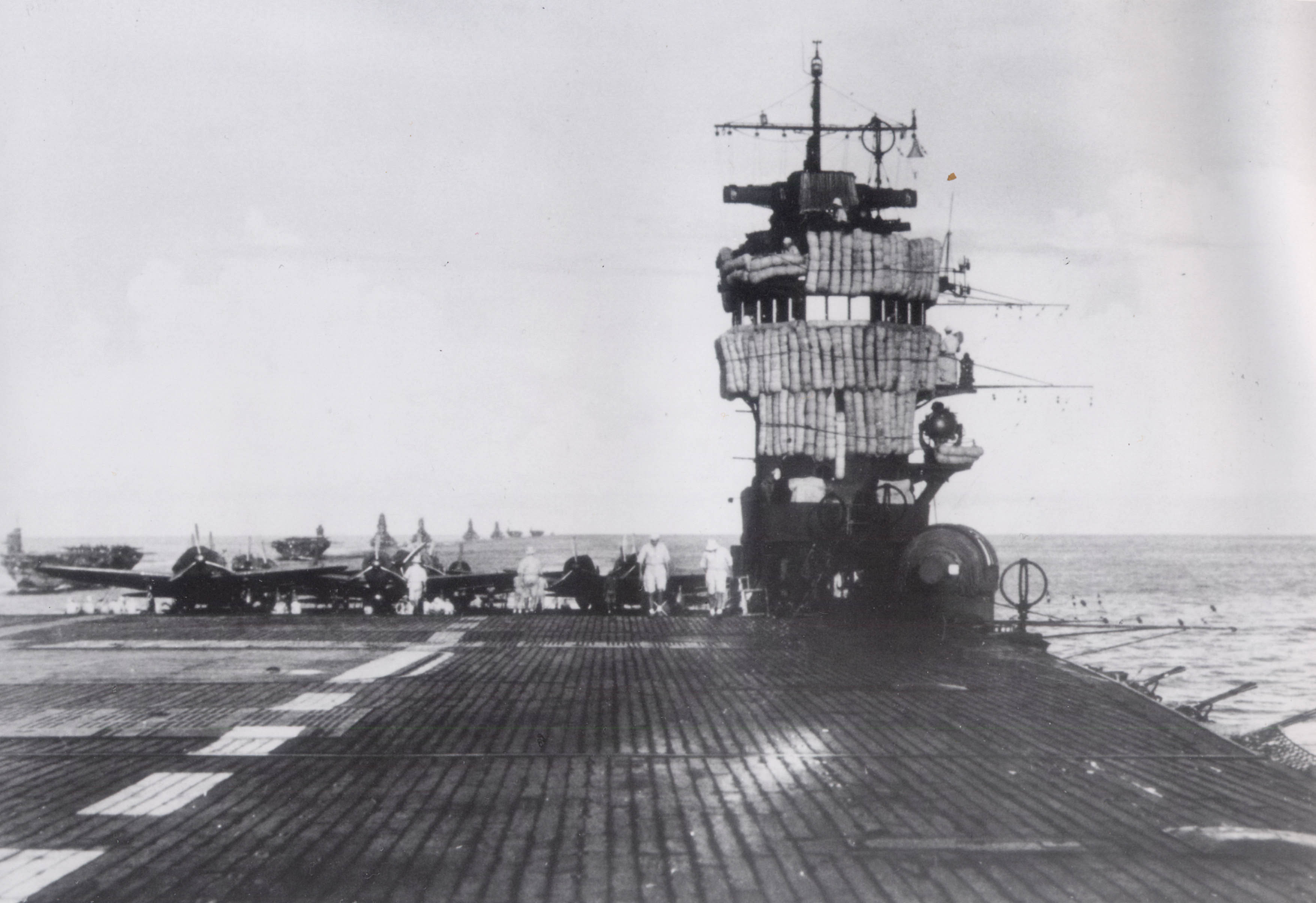 Aircraft carrier Akagi shortly after leaving Port Stirling, Celebes Island, for the Indian Ocean. Her island and forward flight deck (with parked B5N Kate torpedo bombers). Carriers and battleships from left to right: Soryu, Hiryu, Hiei, Kirishima, Haruna, Kongō, Zuikaku, and Shokaku. 26 March 1942.